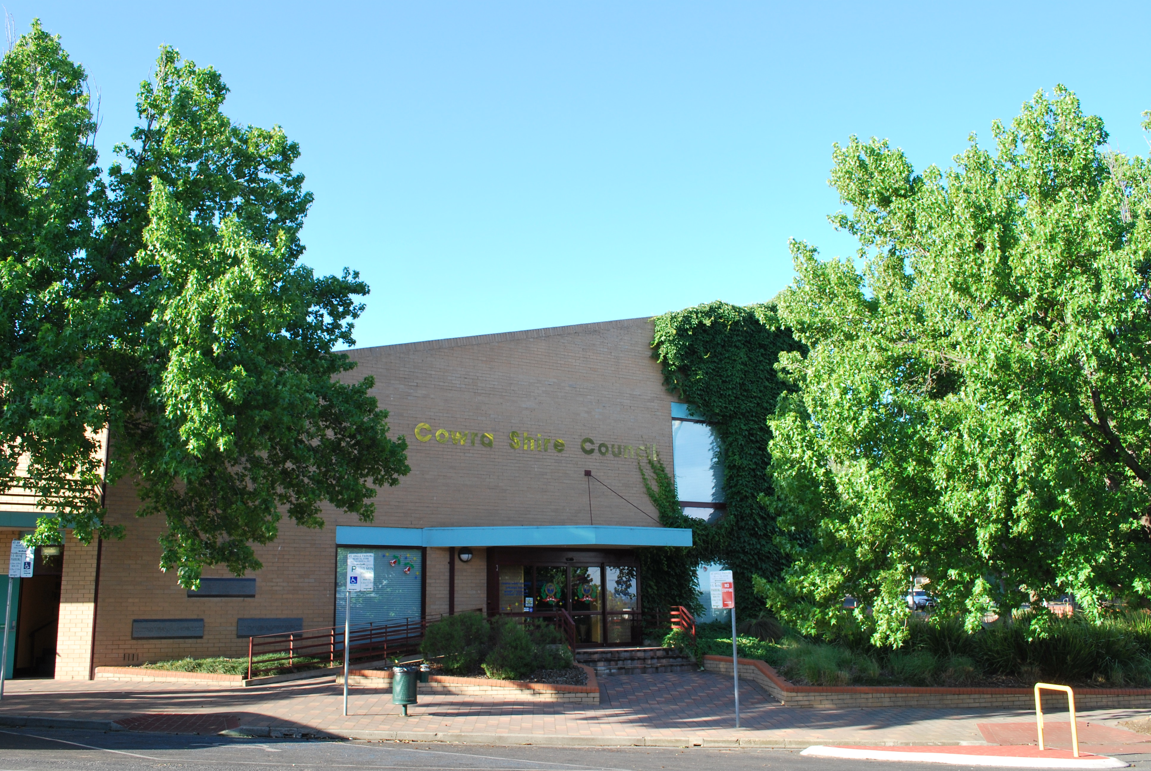 Cowra Shire Council office in Cowra, New South Wales